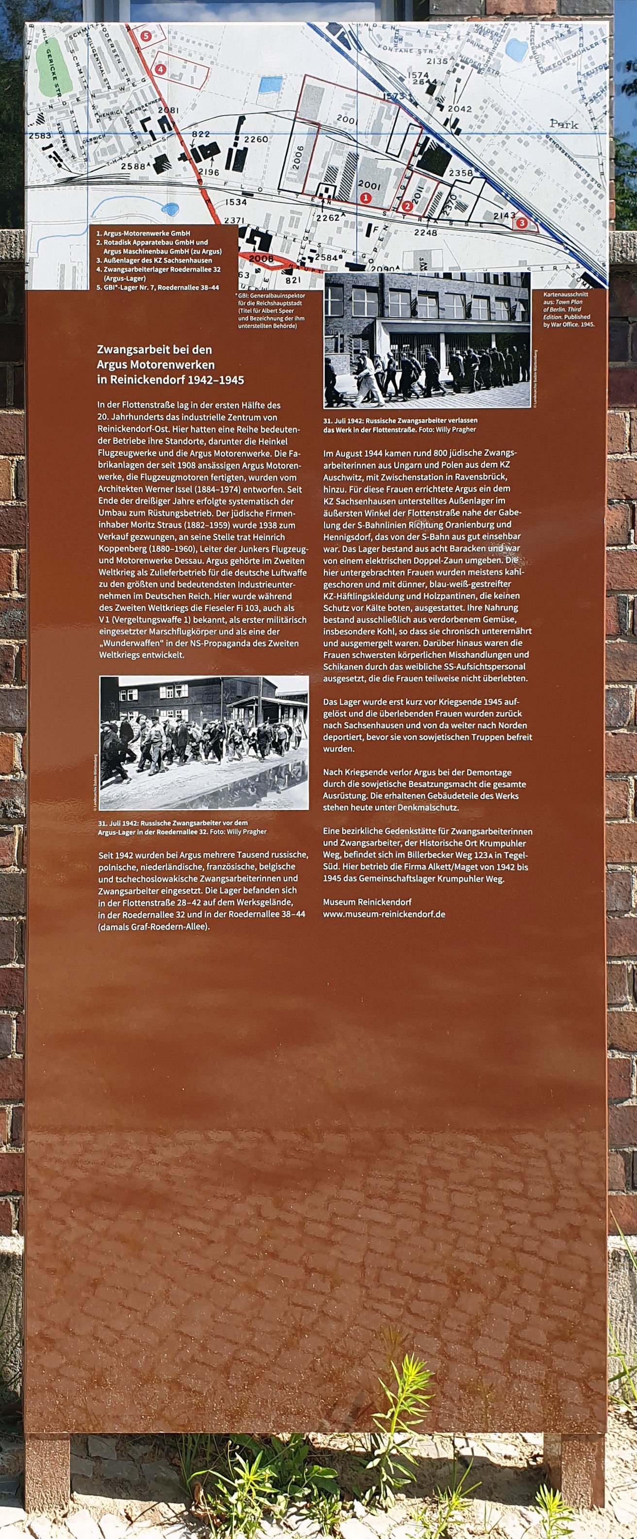 Memorial plaque, Argus Motoren Gesellschaft, Flottenstraße 28, Berlin-Reinickendorf, Deutschland